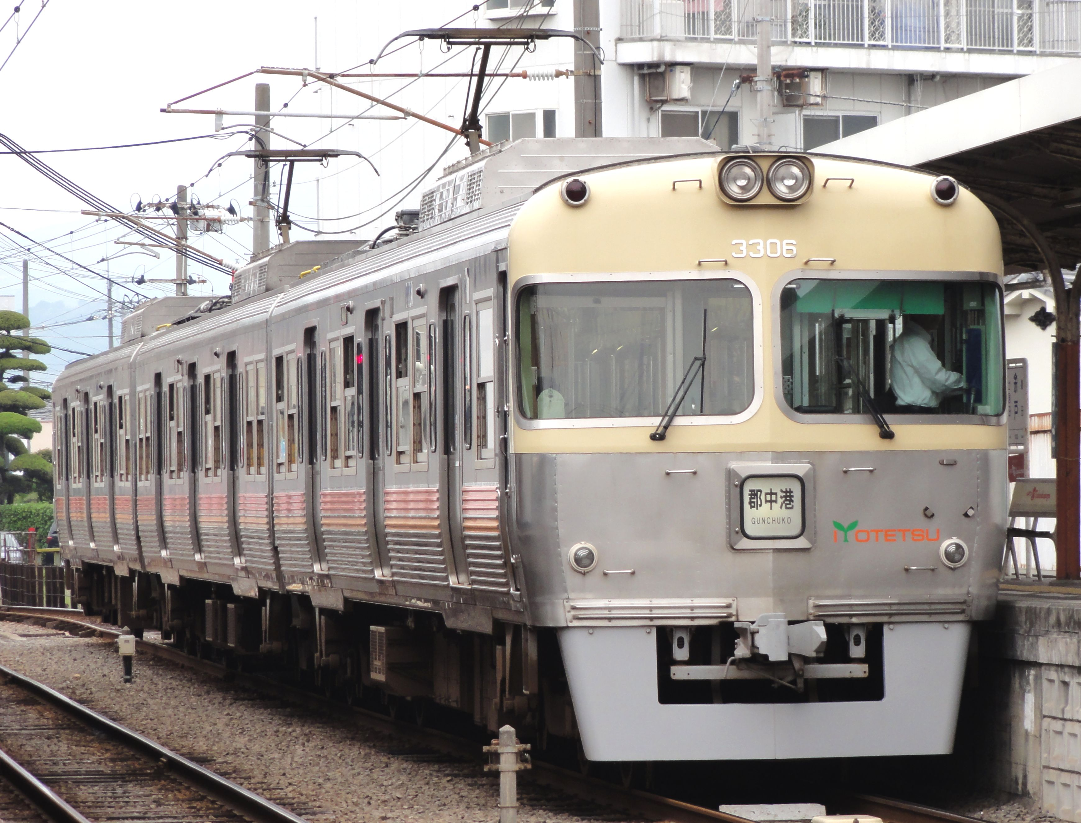 Iyotetsu 3000 series EMU set 3306 at Yogo Station